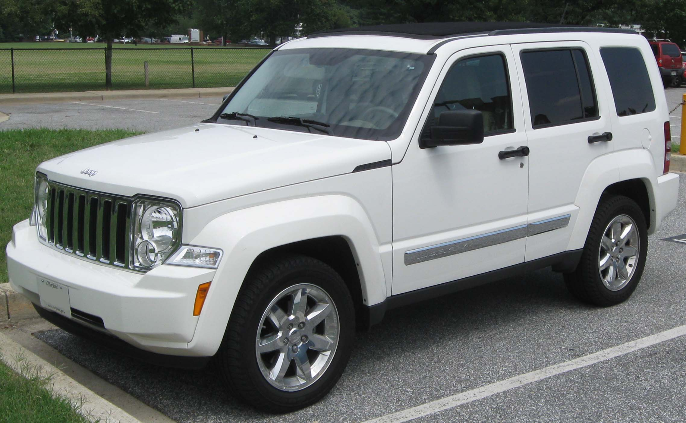 2008-2010 Jeep Liberty Limited photographed in College Park, Maryland, USA.